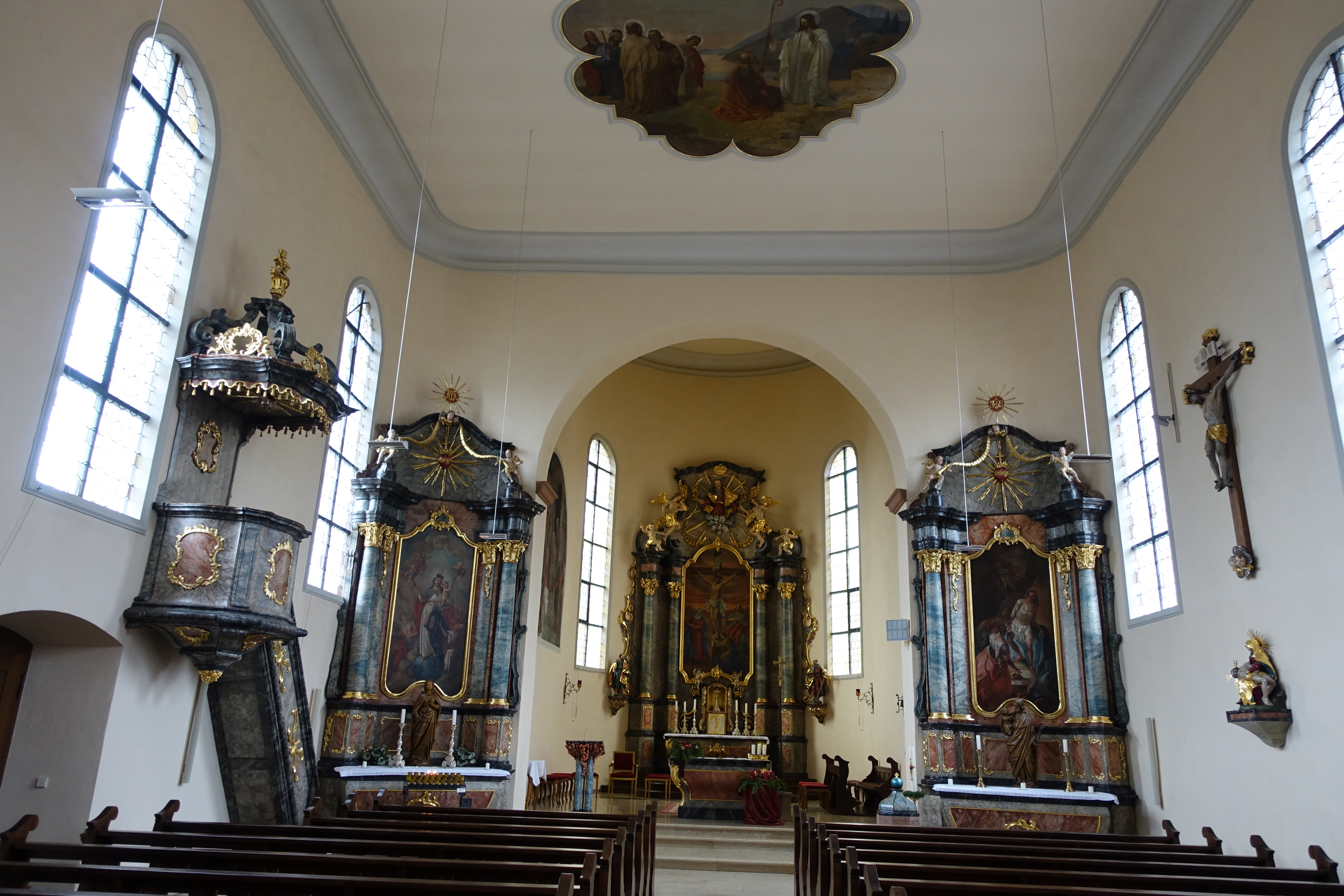 St. Peter und Paul, Welschensteinach, Ortenaukreis, Baden-WÜrttemberg, interior towards each